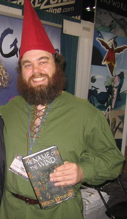 Pat Rothfuss in full gnome garb